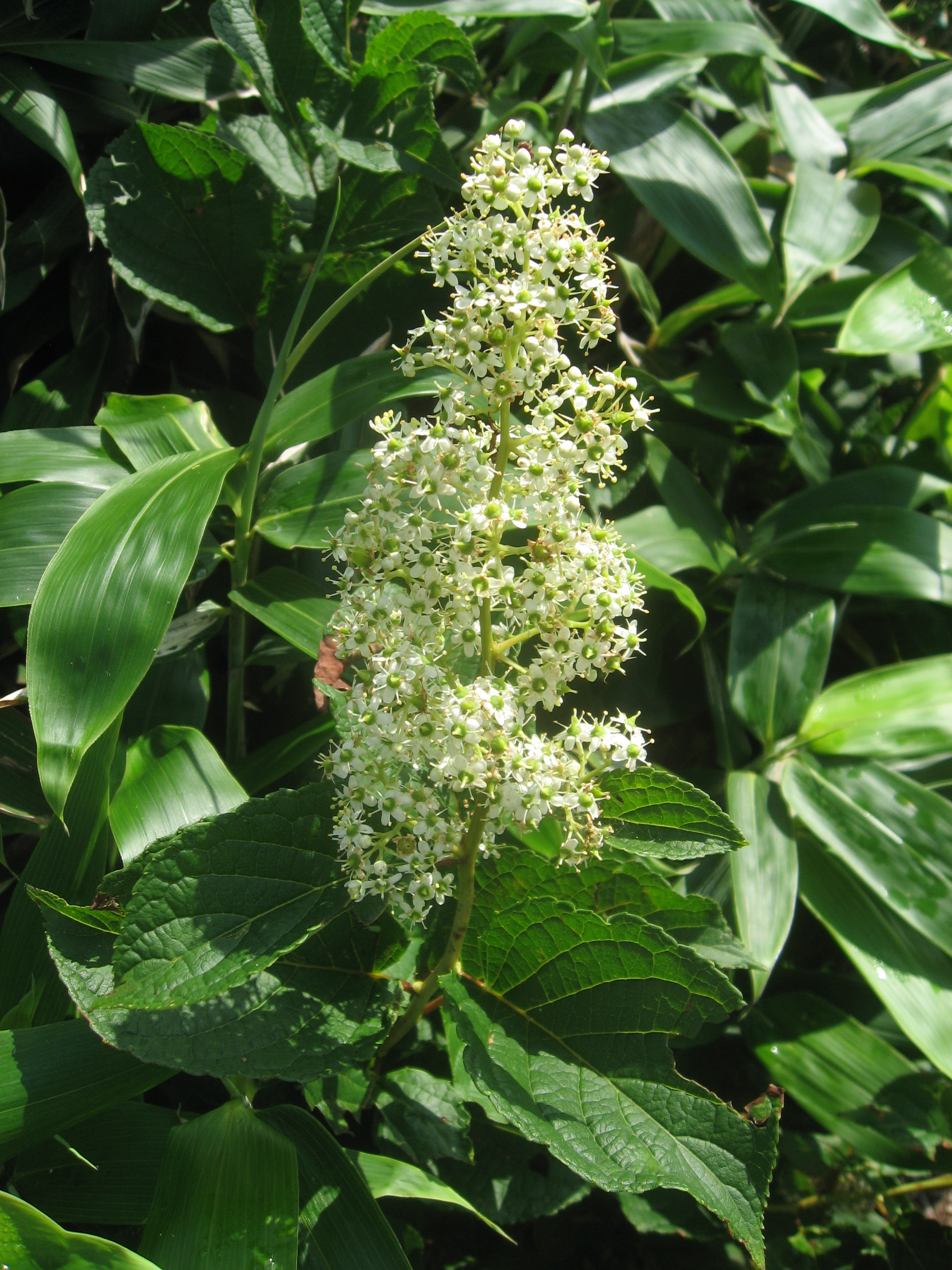 Tripterygium_regelii,Aizu area,Fukushima pref.,Japan